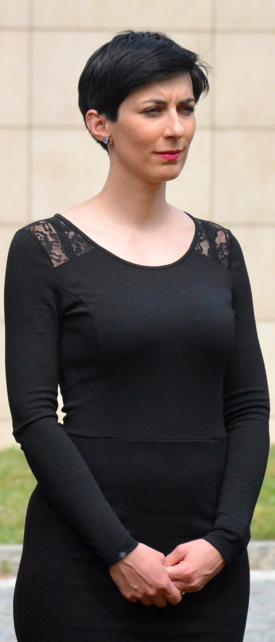 Markéta Pekarová Adamová, Czech politician